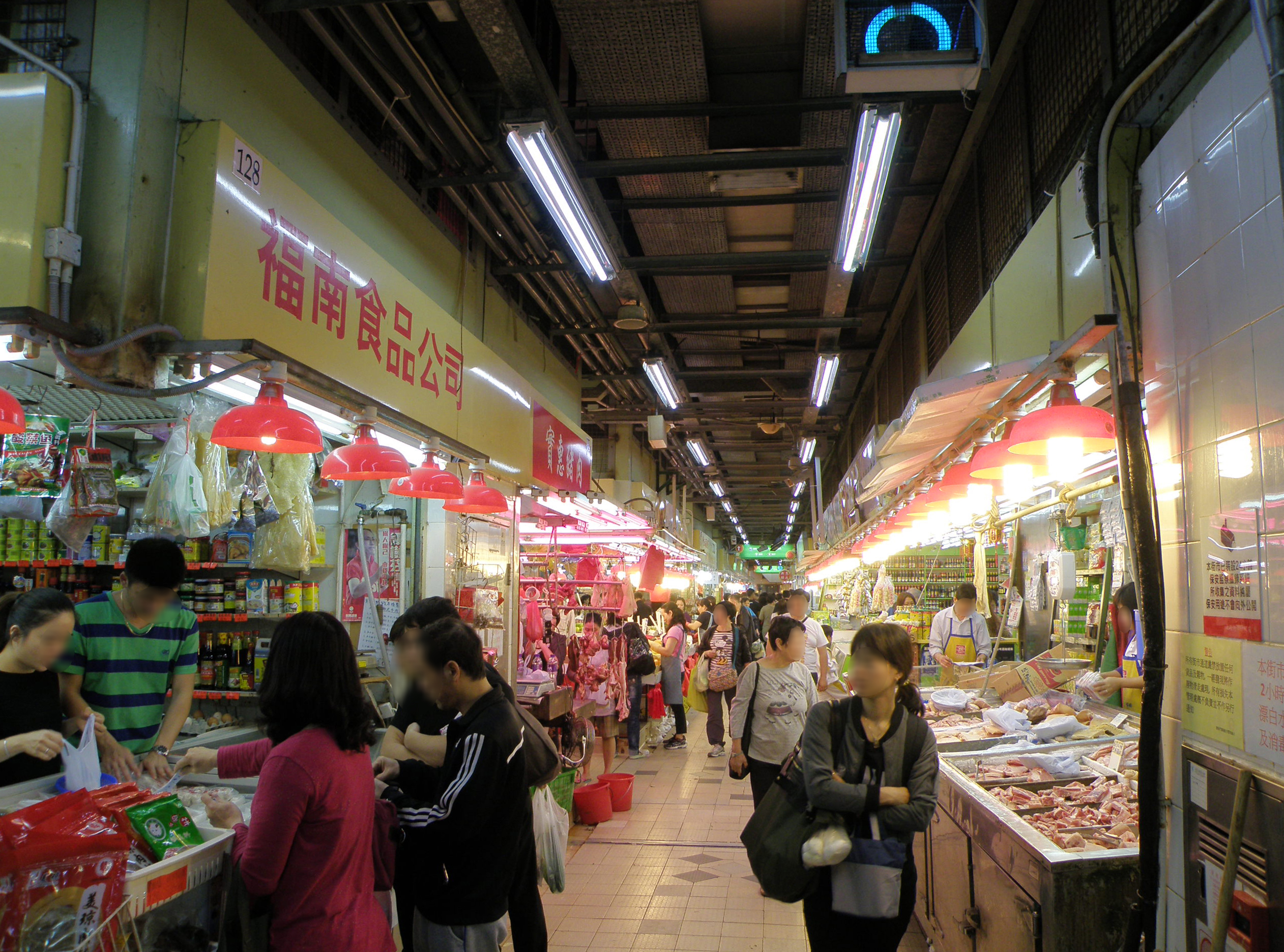 Lei Yue Mun Plaza Market in Yau Tong, Hong Kong.